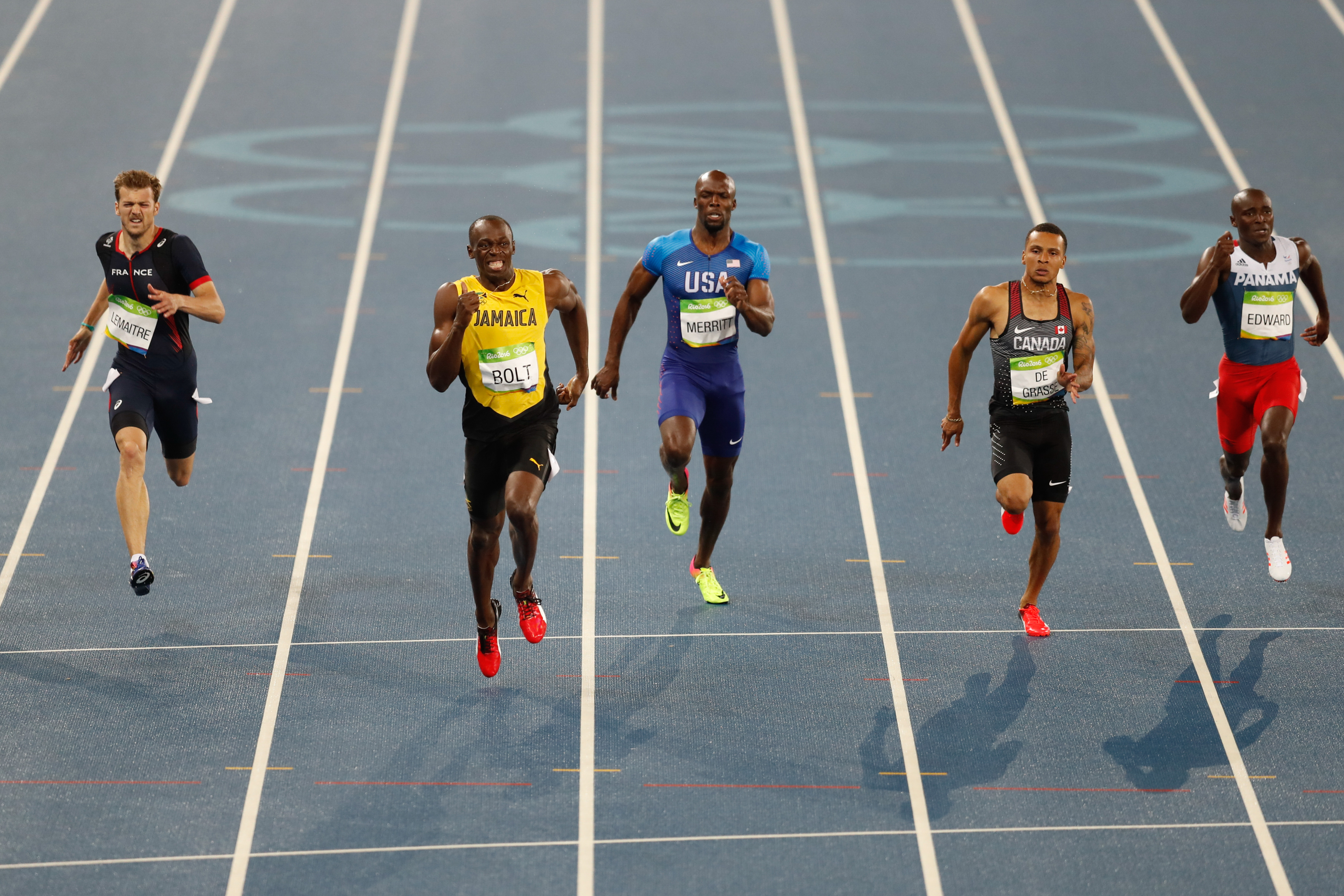 Rio de Janeiro - O Jamaicano Usain Bolt vence prova dos 200m rasos do atletismo e leva medalha de ouro nos Jogos Rio 2016, no Estádio Olímpico (Fernando Frazão/Agência Brasil)